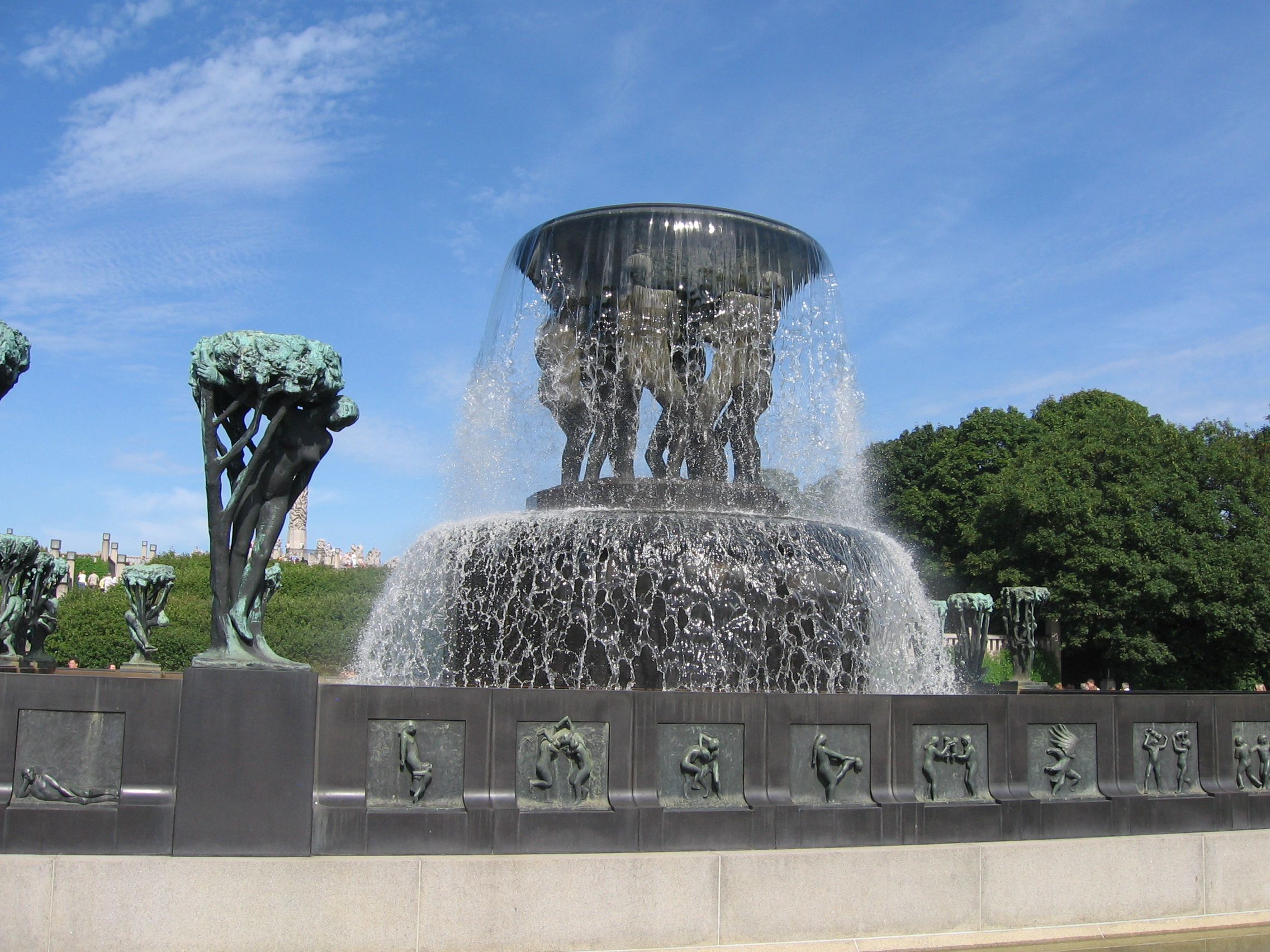 The Fountain in Vigeland Park, Oslo